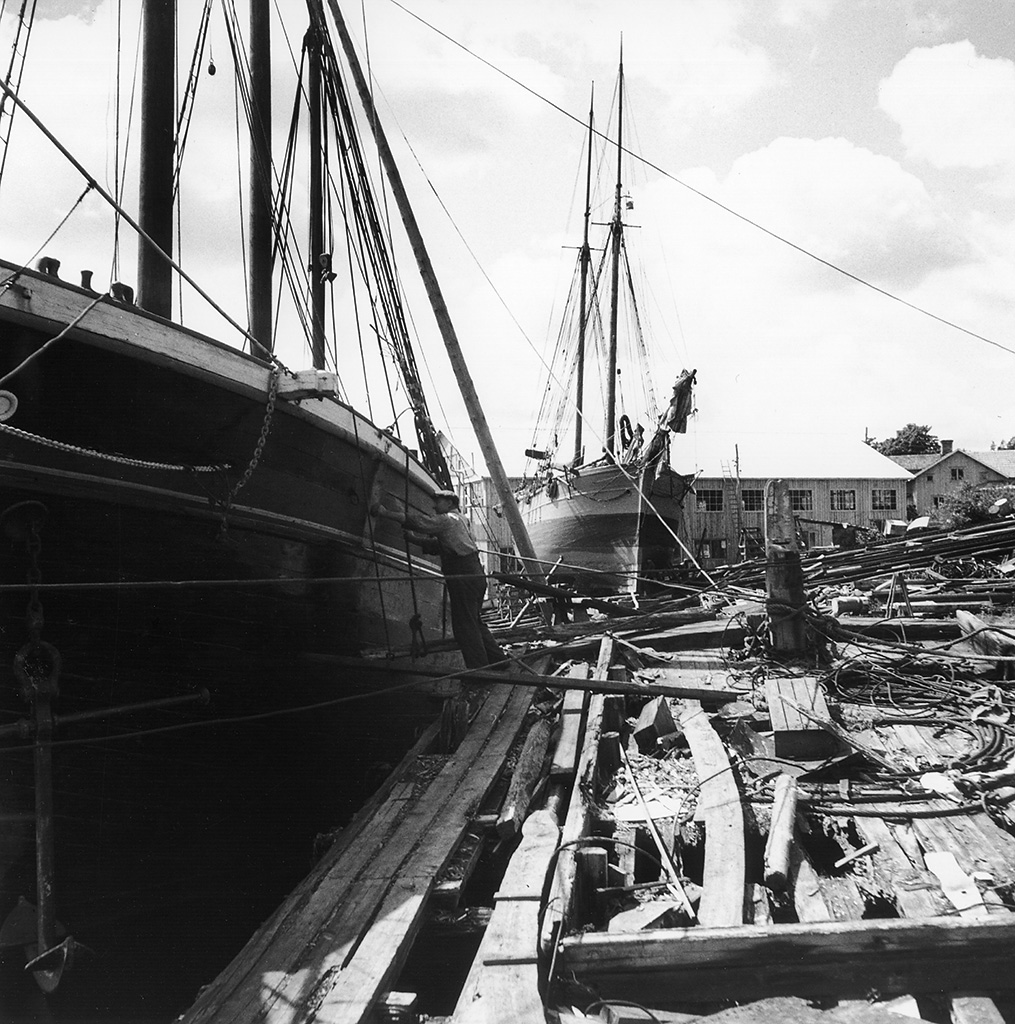 Saltvik shipyard with sailing ships. Saltviks varv med segelfartyg. Parish (socken): Döderhult Province (landskap): Småland Municipality (kommun): Oskarshamn County (län): Kalmar Photograph by: Mårten Sjöbeck Date: 01.07.1945 Format: Film Persistent URL: Read more about the photo database (in english)